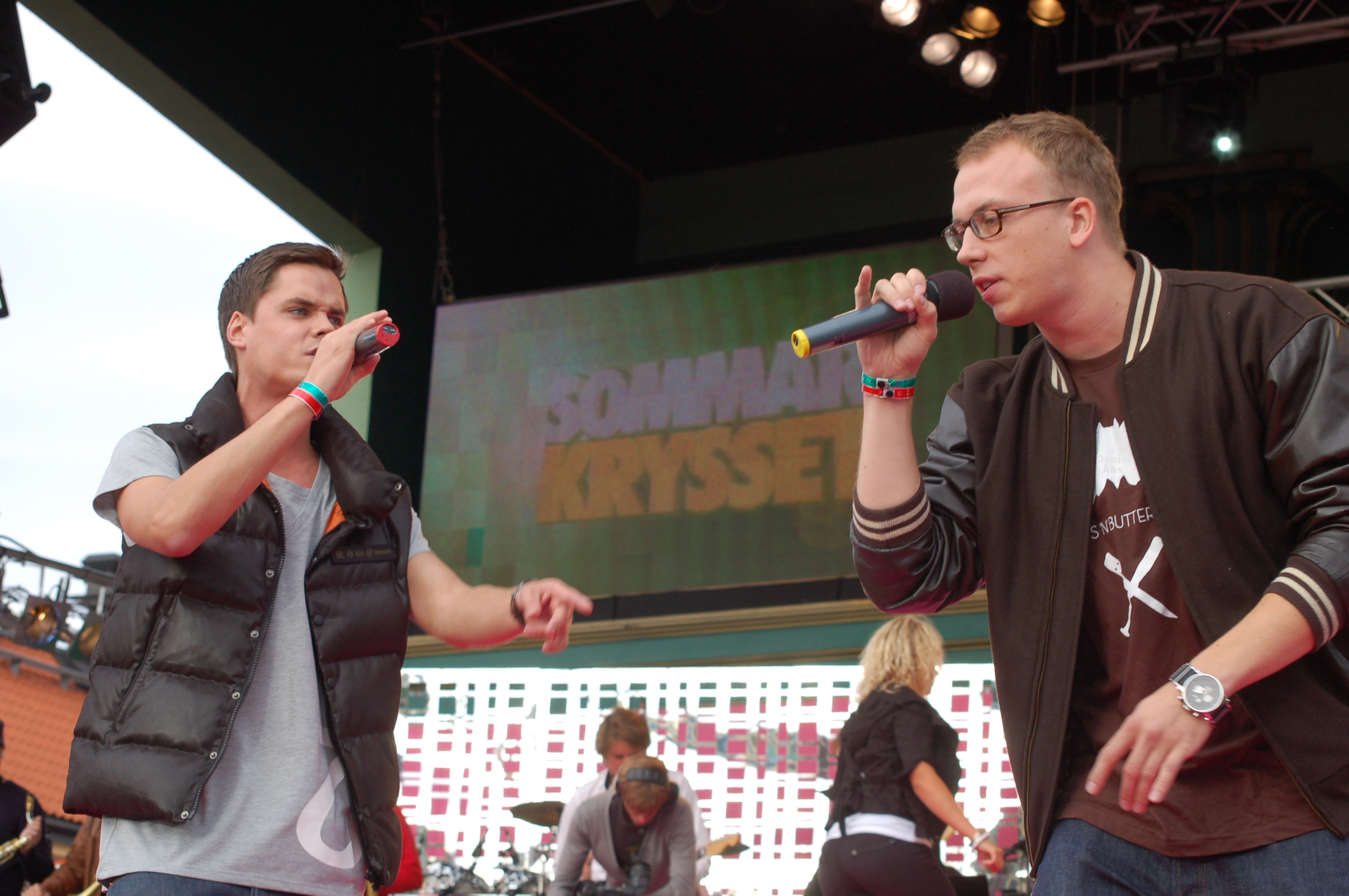 Afasi & Filthy at Gröna Lund, Sommarkrysset.